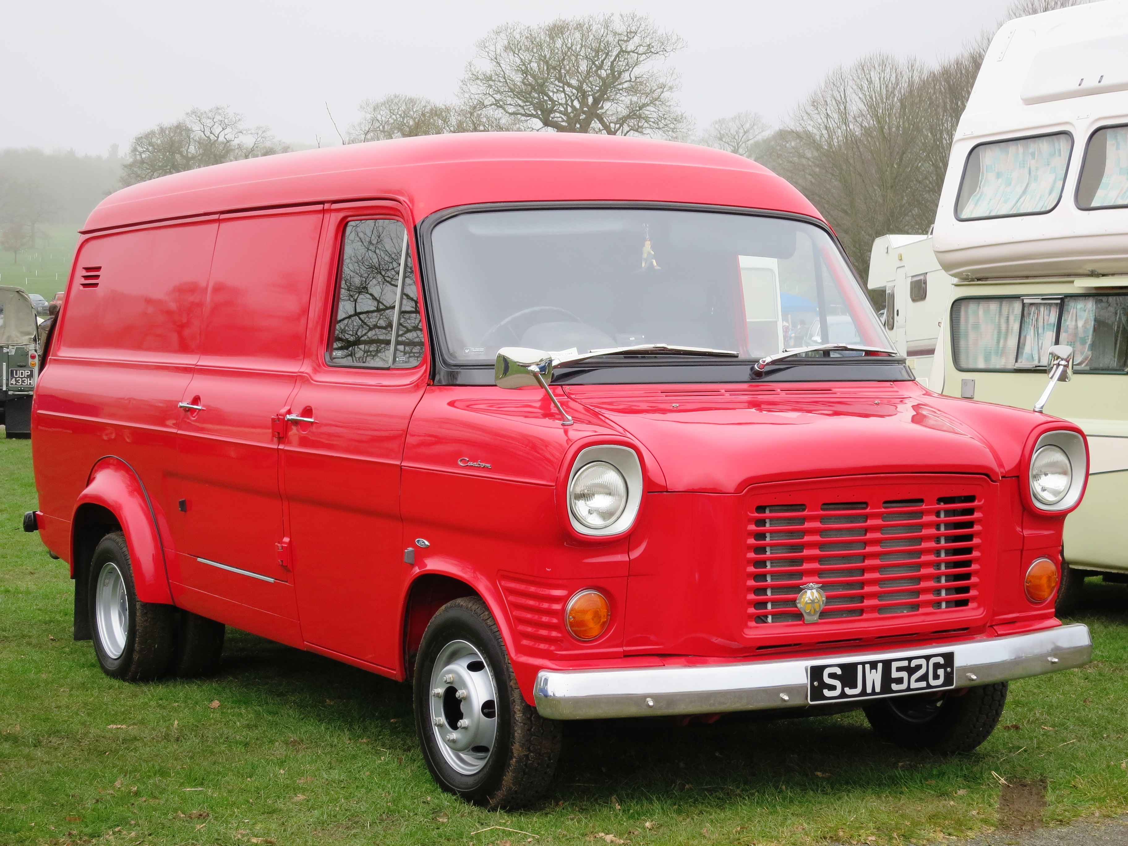 Ford Transit (1969) at Weston (2015)